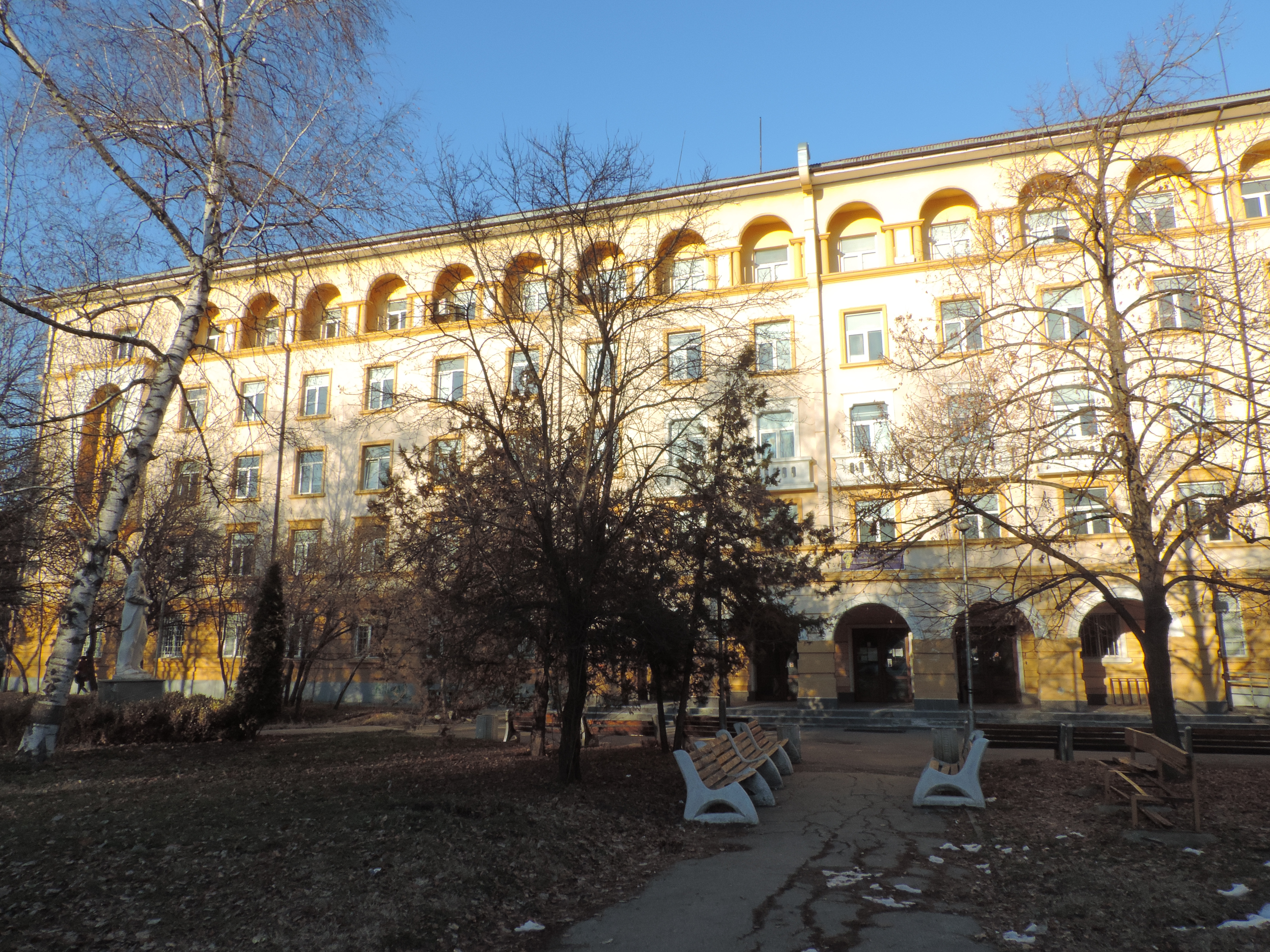 Faculty of Philosophy, Sofia University